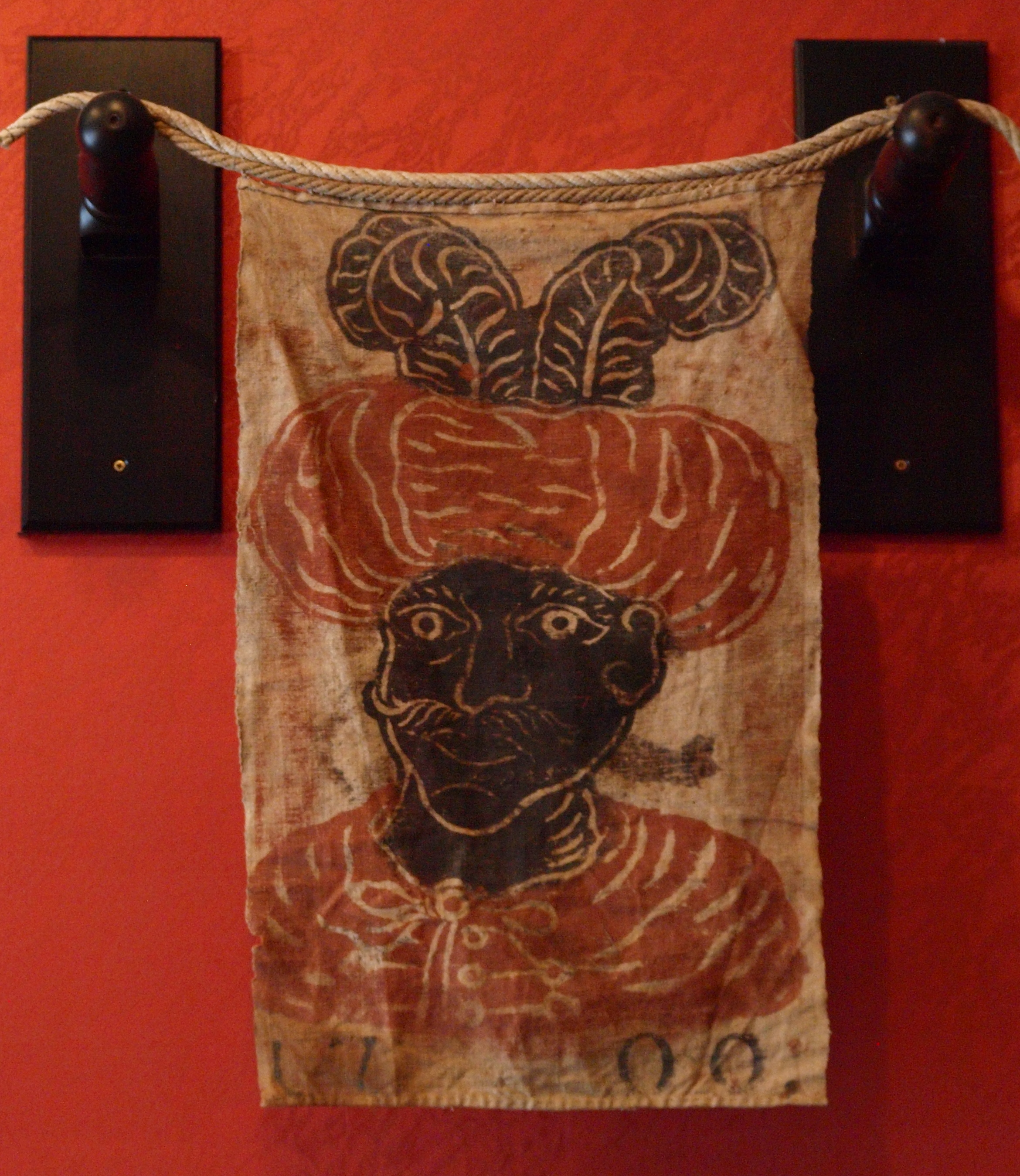 A so called Jagdlappen (German) for the German Hunt depicting a maure and the year 1700